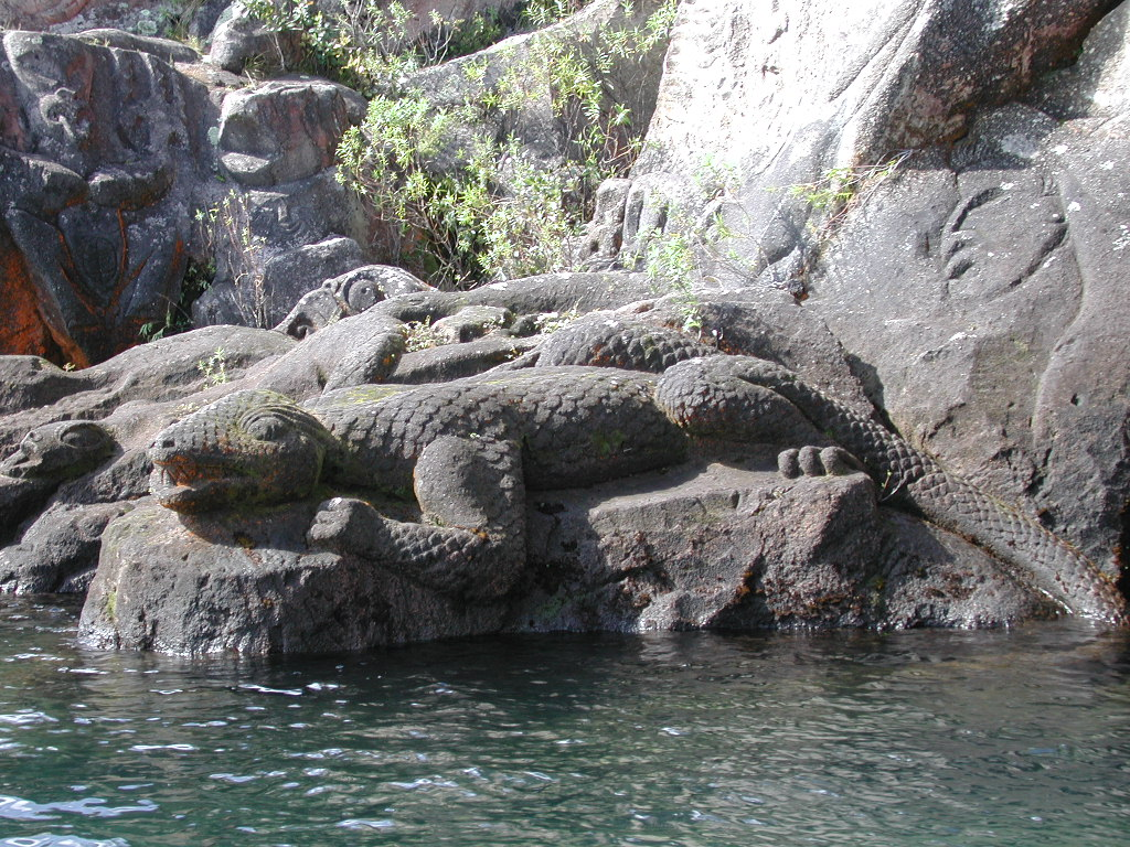 Taniwha rock carving, part of modern Maori rock carvings on Lake Taupo.